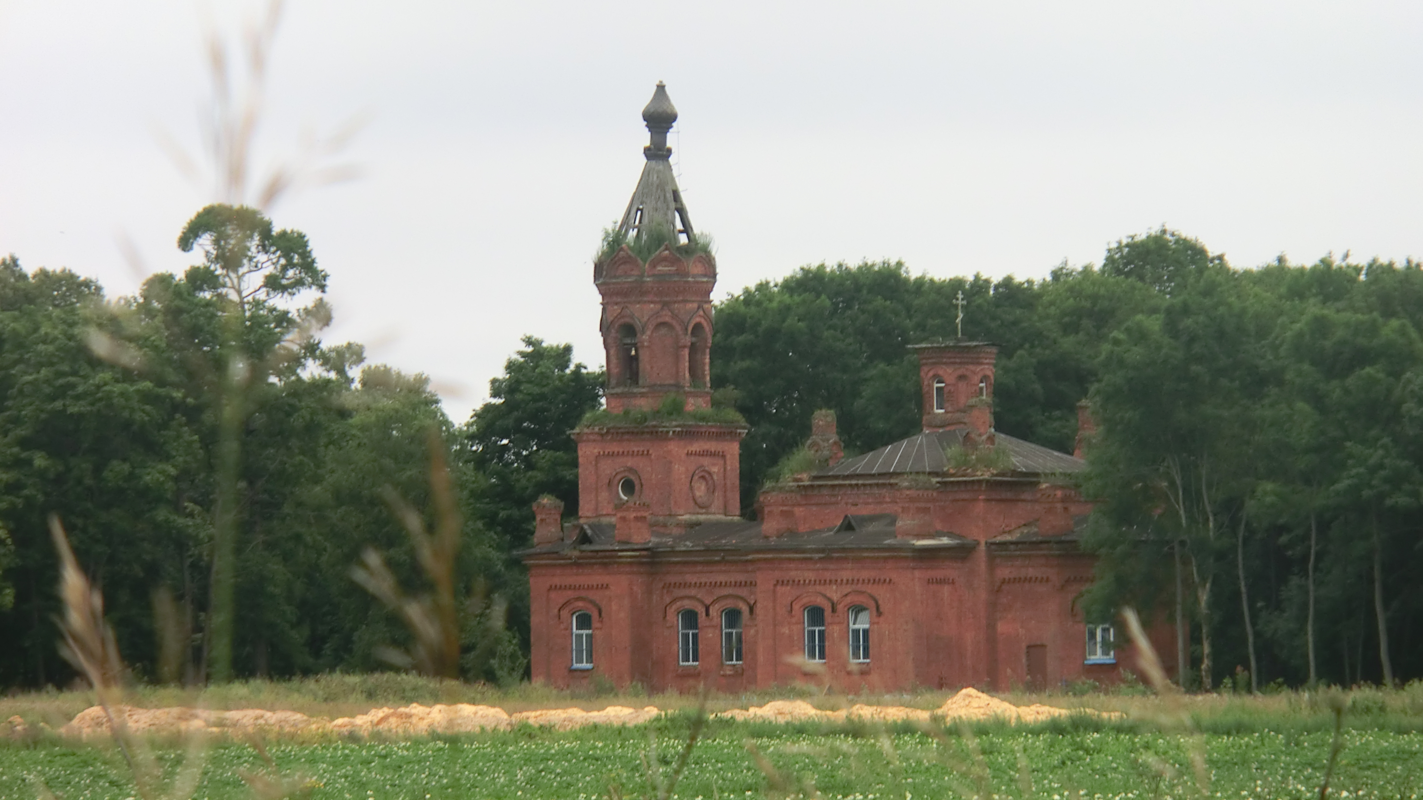 Dormition Church in Lukinskoe, Leningrad Oblast